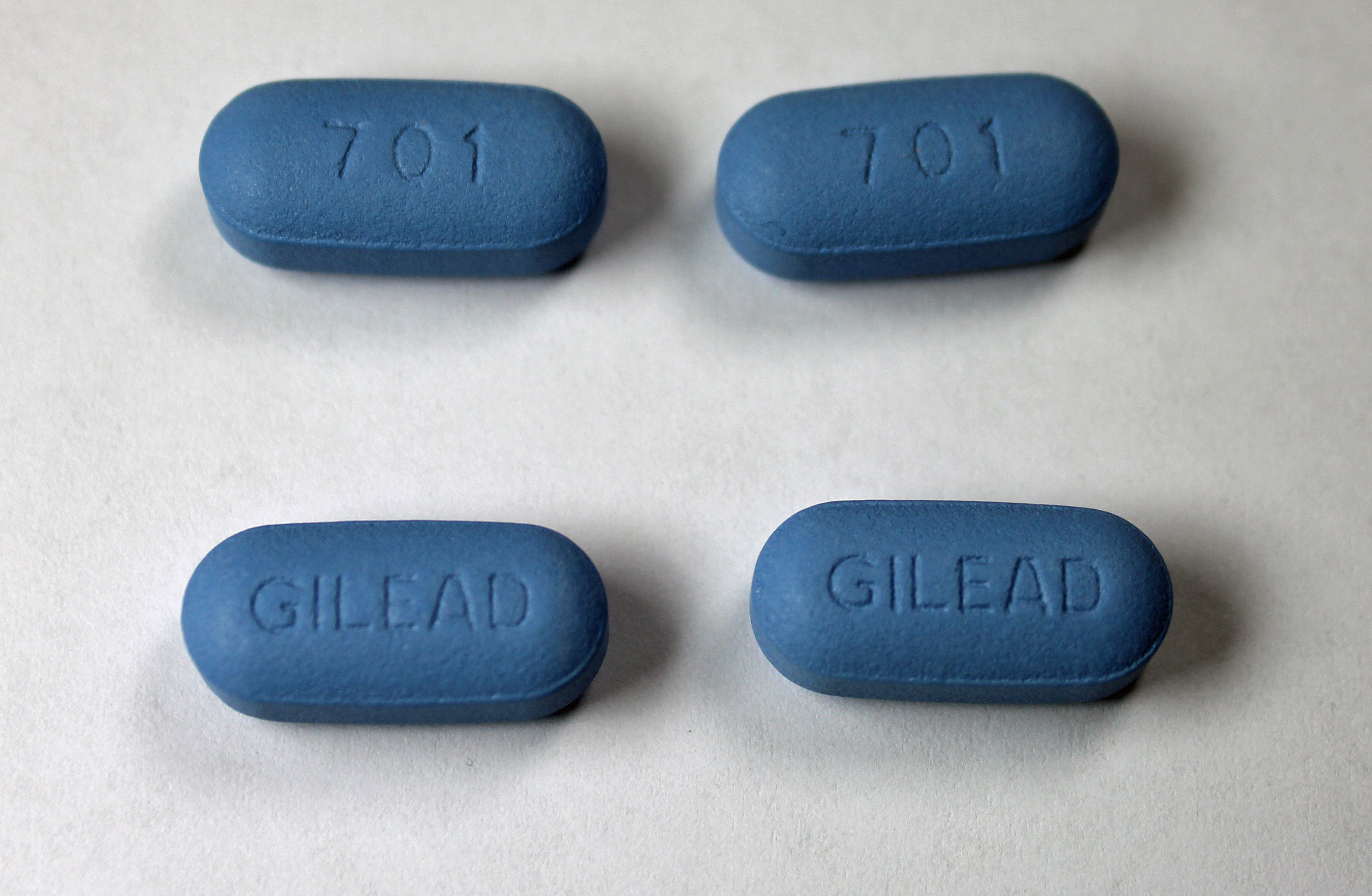 The anti-retroviral drug Truvada, which is a combination of tenofovir and emtricitabine.